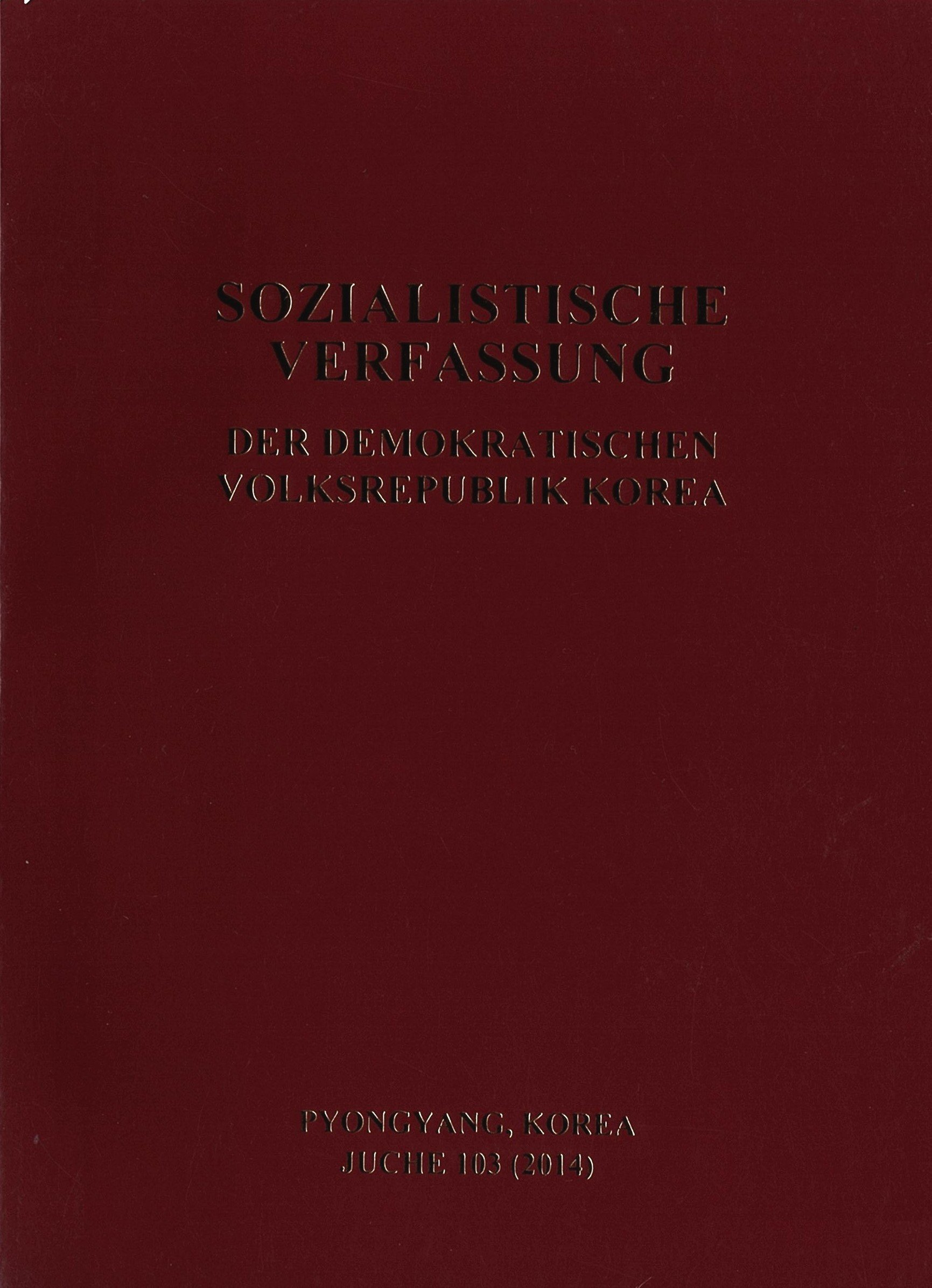 Cover of a printed German edition of the constitution of North Korea